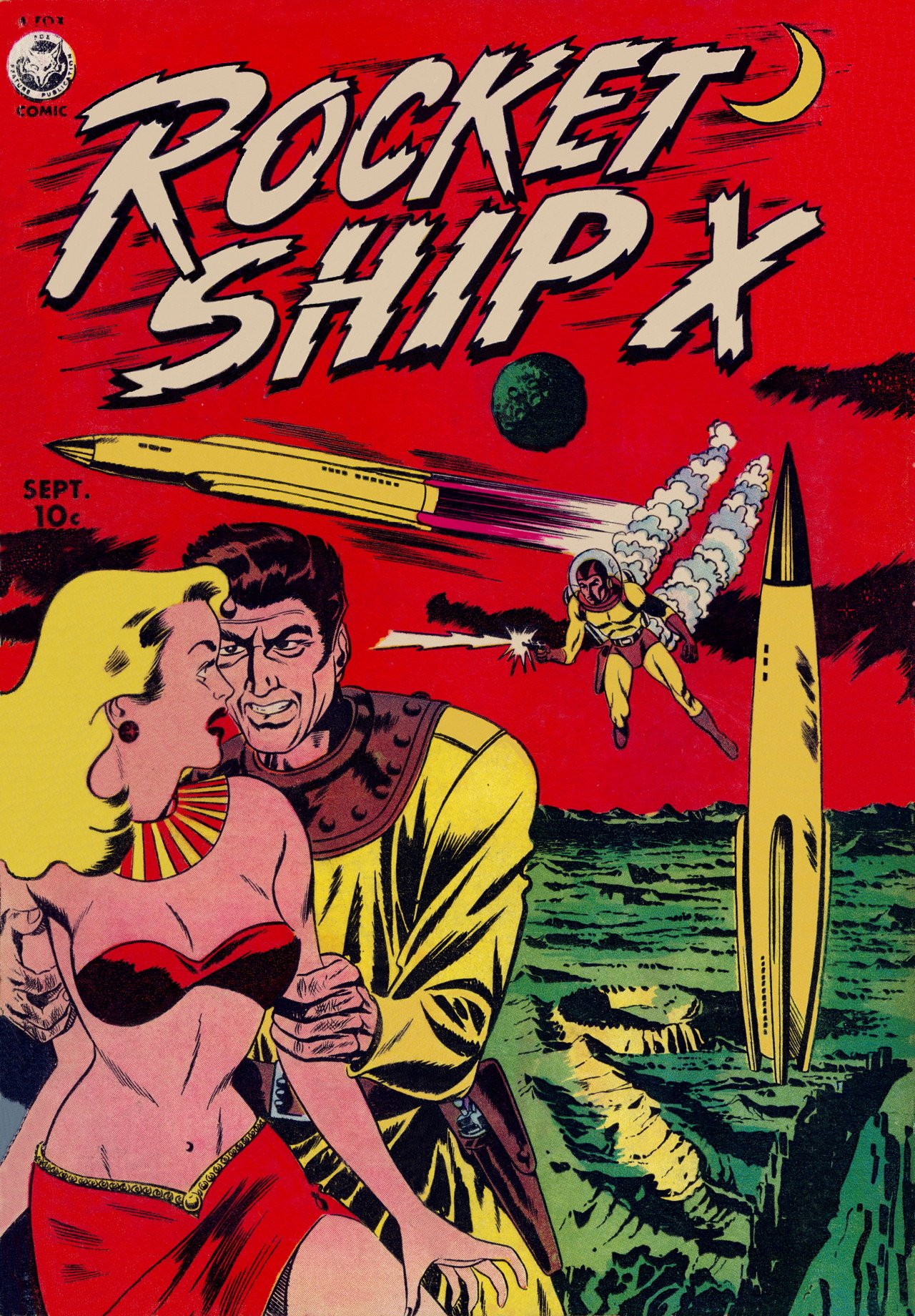 Cover of Rocket Ship X #01, published by Fox Feature Sindycate in 1951. Comic company is defunct, work believed to be in the public domain.